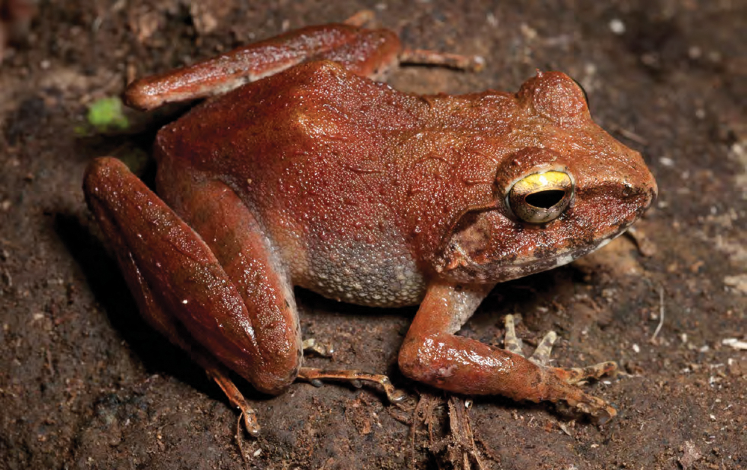 Platymantis cagayanensis (KU 330716) from mid-elevation of Mt. Cagua. Note diagnostic yellow coloration of upper iris. Photo: RMB.